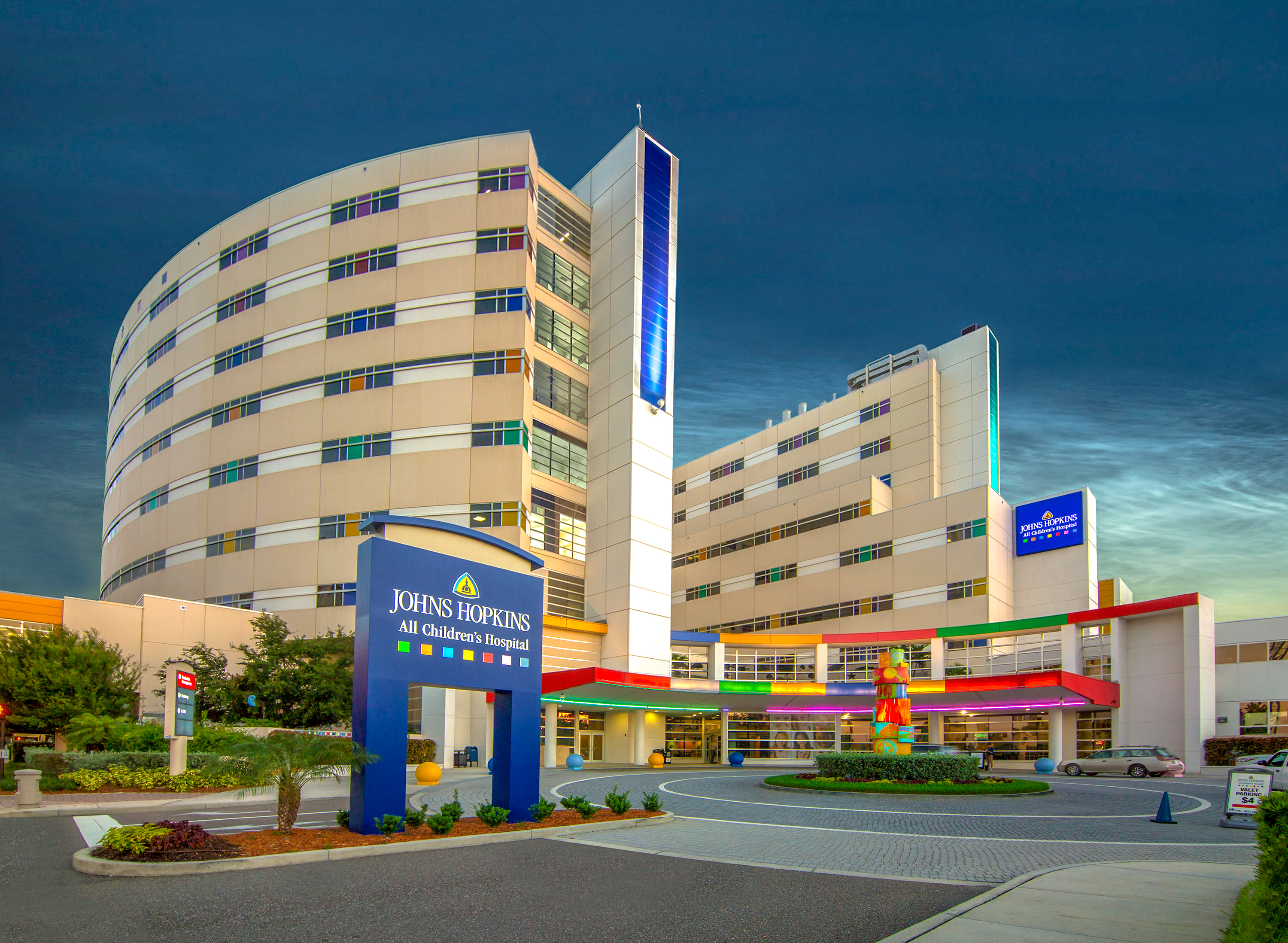 Johns Hopkins All Children’s Hospital provides expert pediatric care for infants, children and teens with some of the most challenging medical problems in our community and around the world. Named a top 50 children's hospital by U.S. News & World Report, we provide access to the most innovative treatments and therapies. Taking part in pediatric medical education and clinical research helps us to provide world-class care in more than 43 pediatric medical and surgical subspecialties.With more than half of our 259 beds devoted to intensive care level services, we are the regional pediatric referral center for Florida's West Coast. Physicians and community hospitals count on us to care for critically ill patients and perform complex surgical procedures. Exterior.